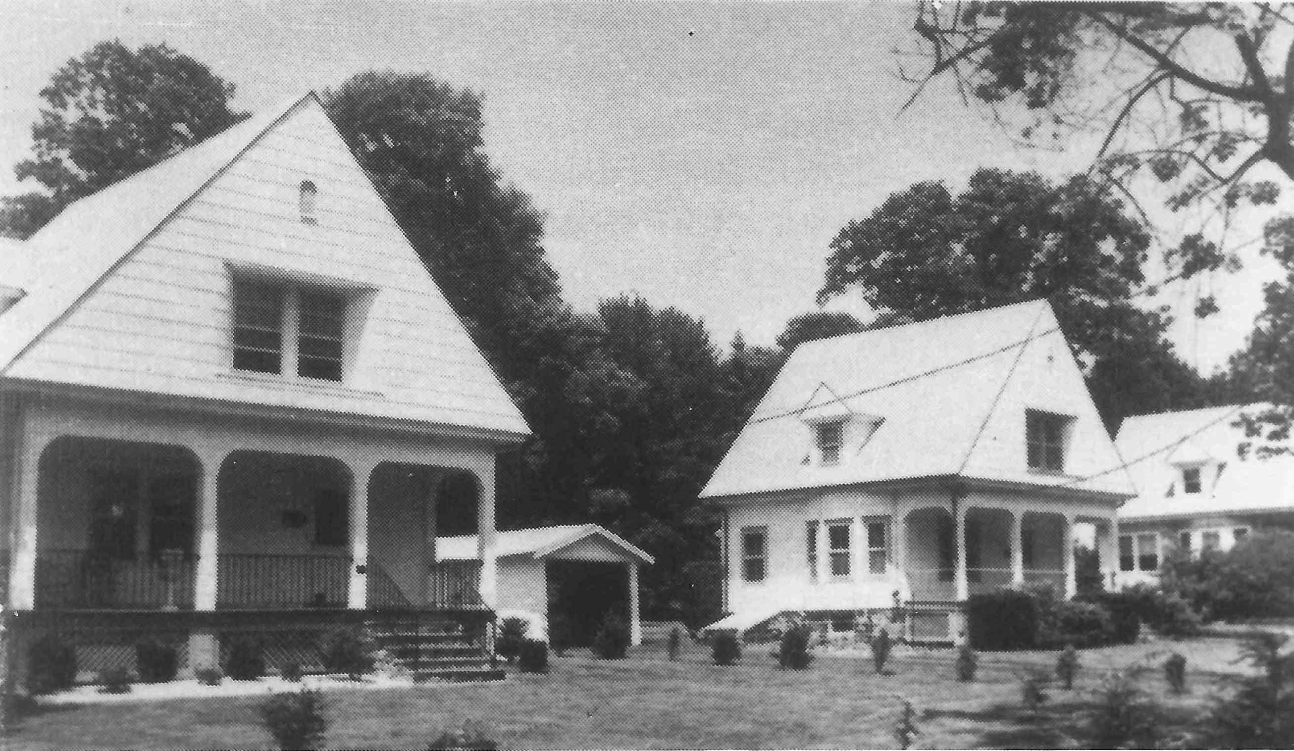 Briarcliff Farms employee houses.